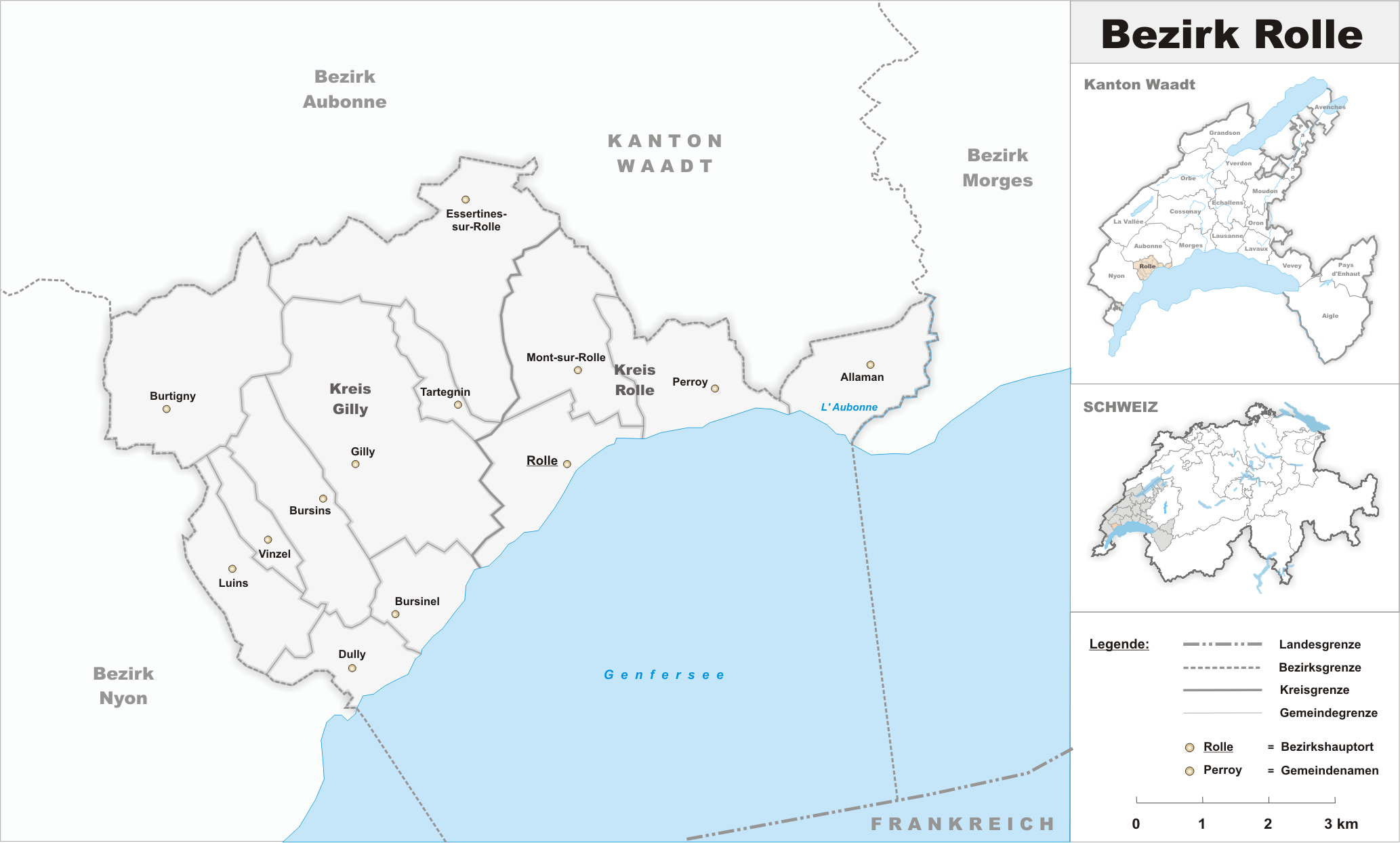 Municipalities in the district of Rolle